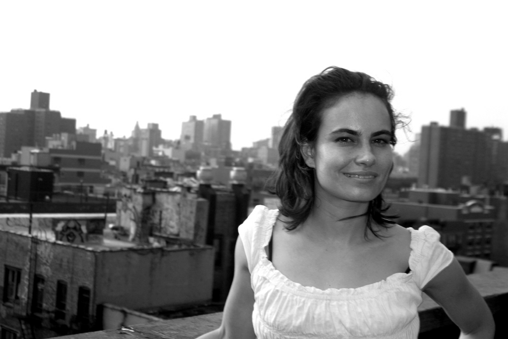 Artist Inka Essenhigh in New York city.